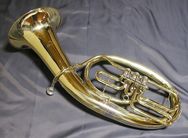 Tenorhorn MIRAPHONE 47W